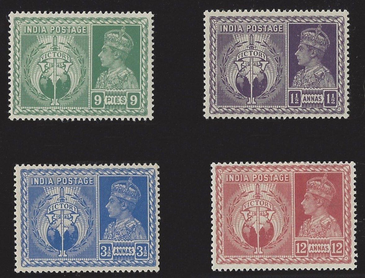 The postal stamp series "Victory," issued on 2 January, 1946, by the Government of India (British Raj) to commemorate the victory in August 1945 of allied nations in World War II